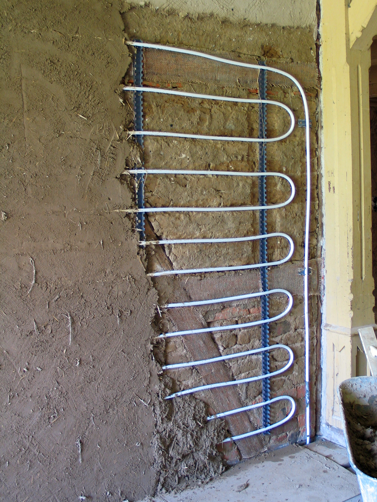 Wallheating pipes partial fettled. The Pipes are made of a aluminium-plastic-combination.